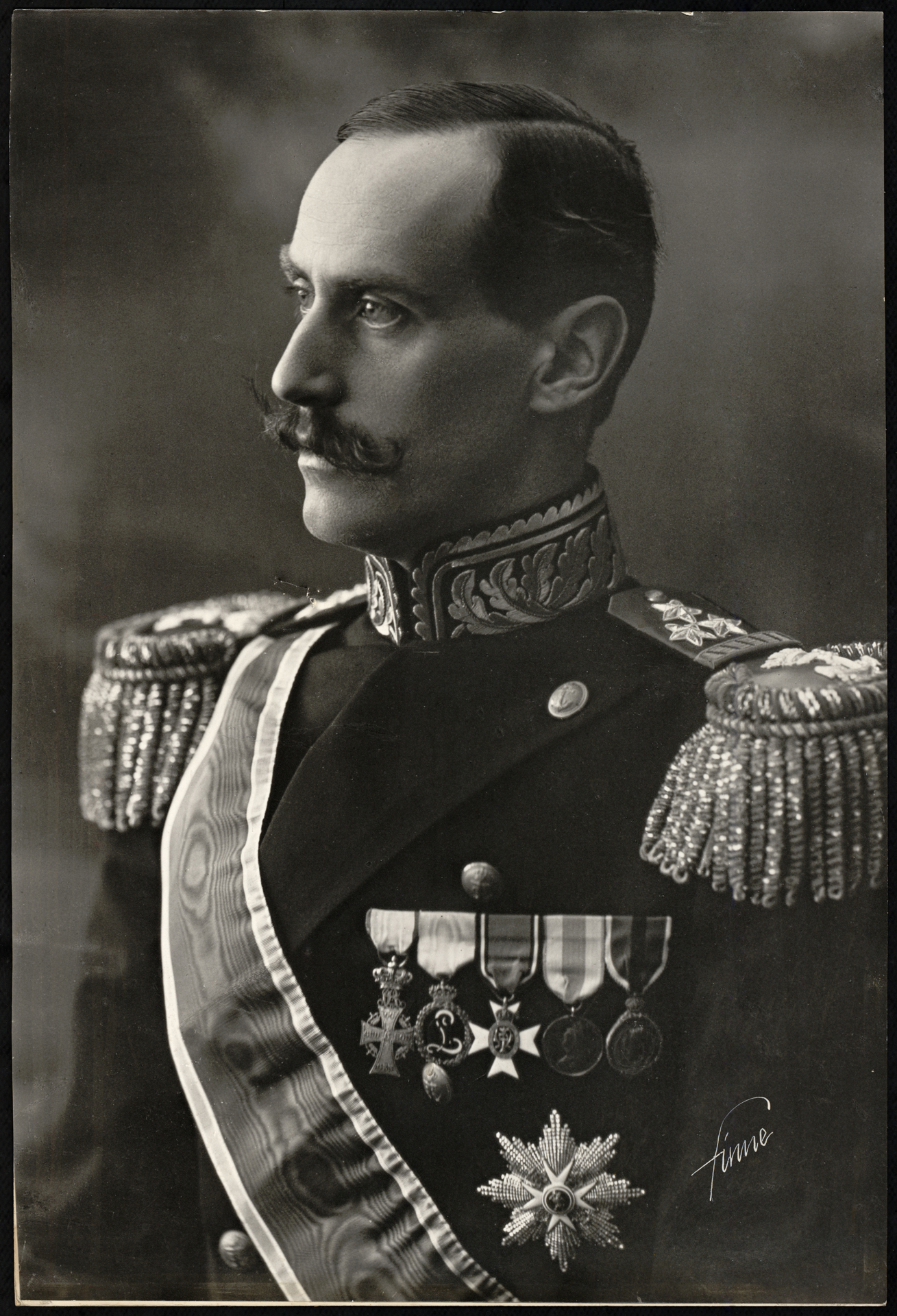 Tittel / Title: Portrett av Kong Haakon VII / King Haakon VII (1872-1957) Dato / Date: ukjent / unknown Fotograf / Photographer: Theodor Finne (1874-1938) Eier / Owner Institution: Nasjonalbiblioteket / National Library of Norway Lenke / Link: Bildesignatur / Image Number: blds_04780